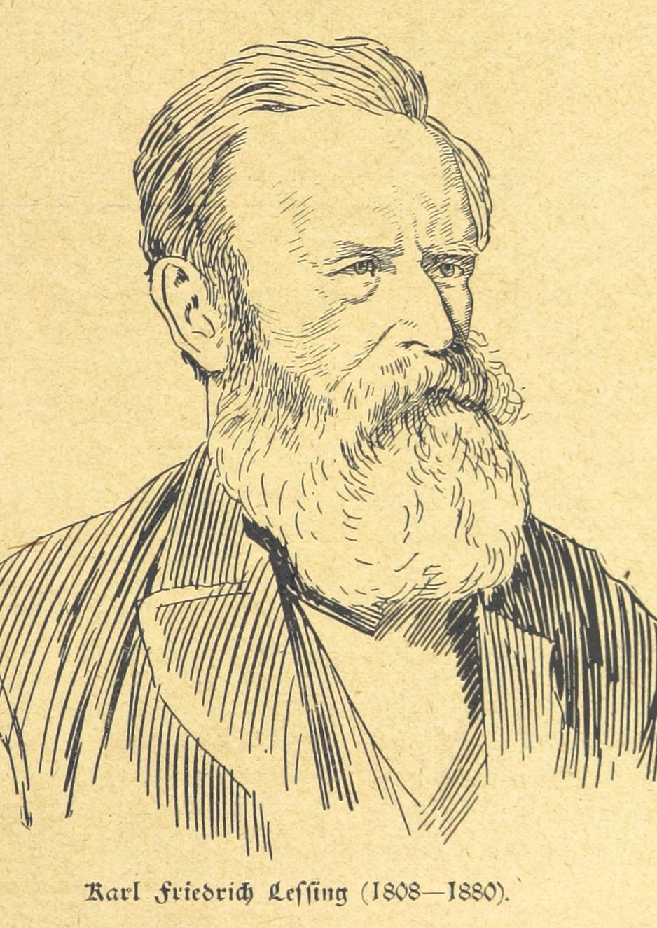 Sketch of Carl Friedrich Lessing Image taken from: Title: "Hundert Jahre in Wort und Bild. Eine Kulturgeschichte des XIX. Jahrhunderts herausgegeben von Dr. S. Stefan. Mit 800 Text-Illustrationen, etc" Author: STEFAN, S. Shelfmark: "British Library HMNTS 9008.dd.15." Page: 525 Place of Publishing: Berlin Date of Publishing: 1899 Issuance: monographic Identifier: 003487605 Explore: Find this item in the British Library catalogue, 'Explore'. Download the PDF for this book (volume: 0) Image found on book scan 525 (NB not necessarily a page number) Download the OCR-derived text for this volume: (plain text) or (json) Click here to see all the illustrations in this book and click here to browse other illustrations published in books in the same year.